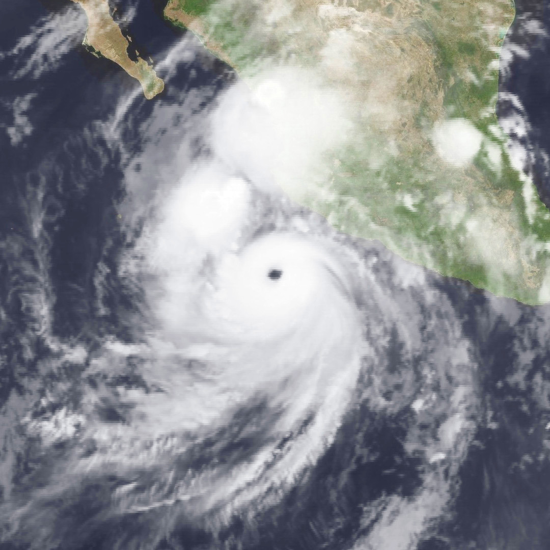 Hurricane Lidia at peak intensity off the southwest coast of Mexico on September 11, 1993